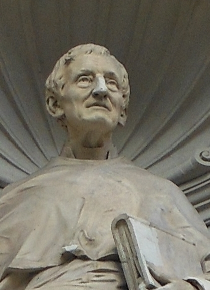 John Henry Newman Monument at Brompton Oratory